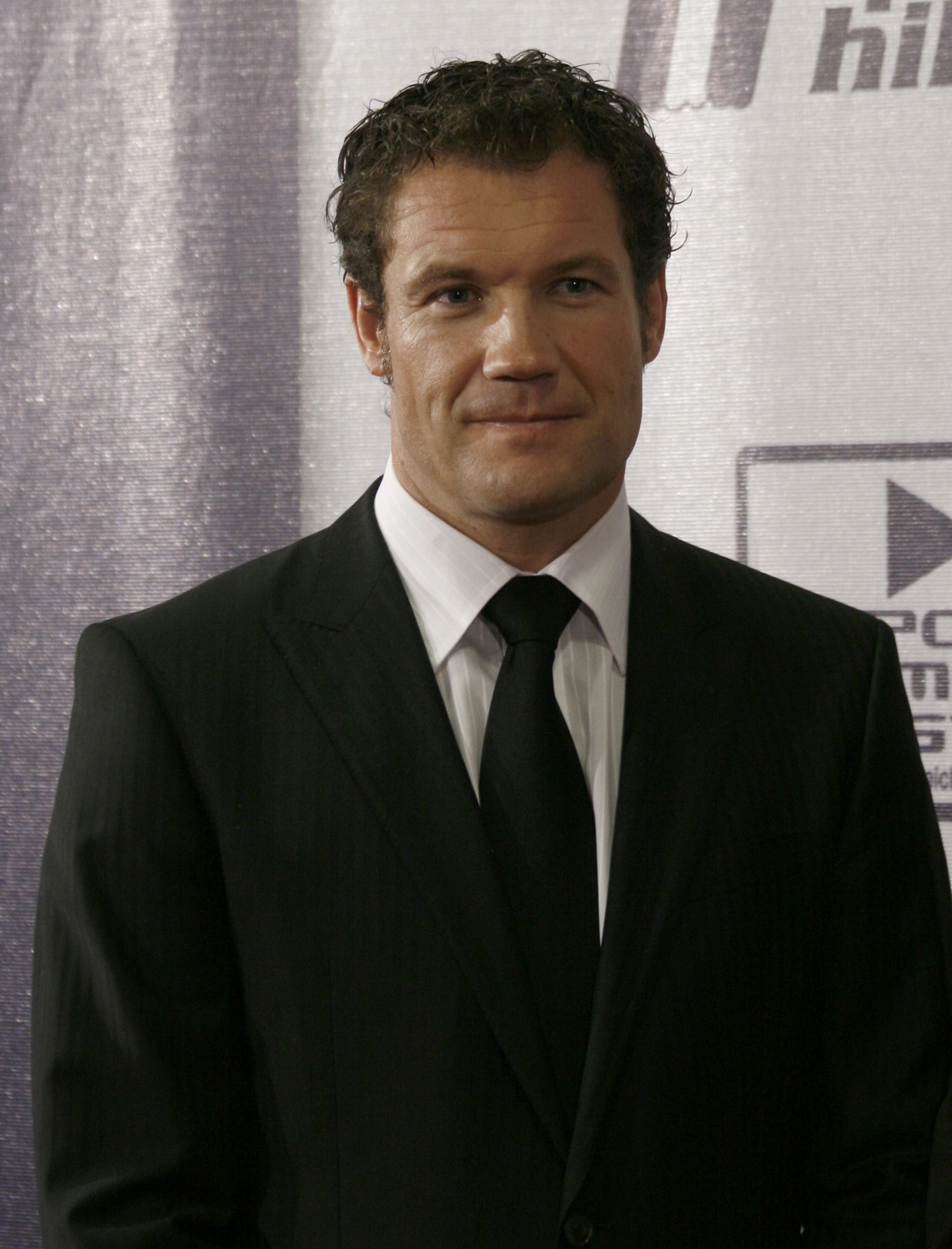 Austrian alpine skier and tv-presenter Armin Assinger at the Galanacht des Sports (Gala-Night of Sports), where the Austrian Sportspersonalities of the year were honoured.